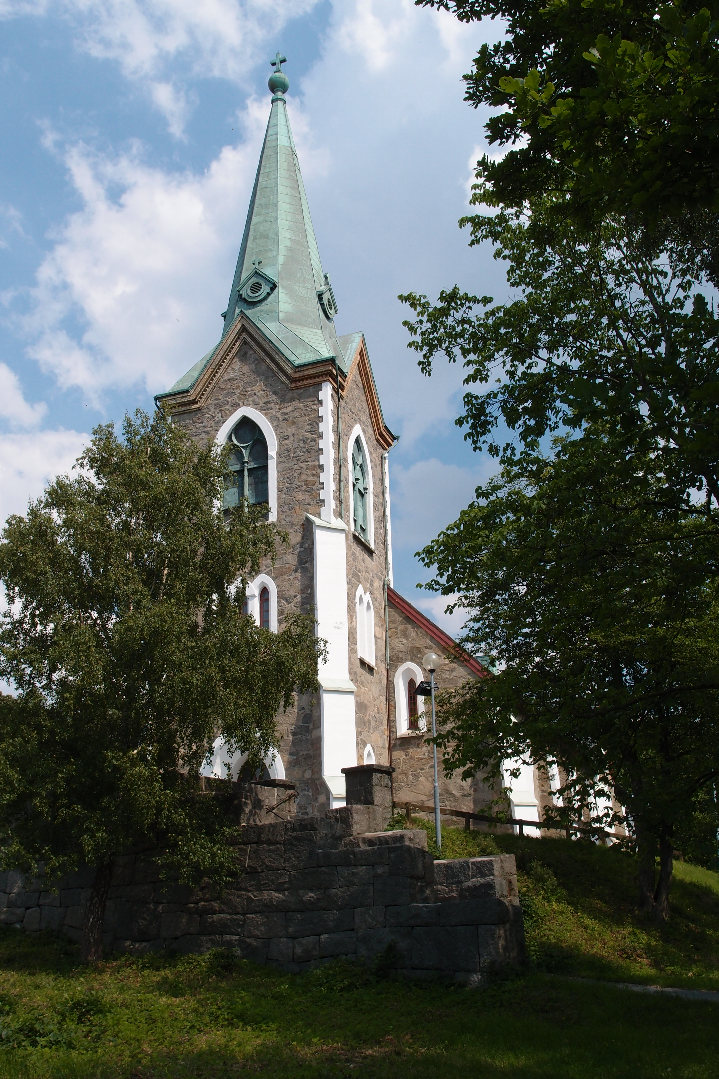 Västra Frölunda Church